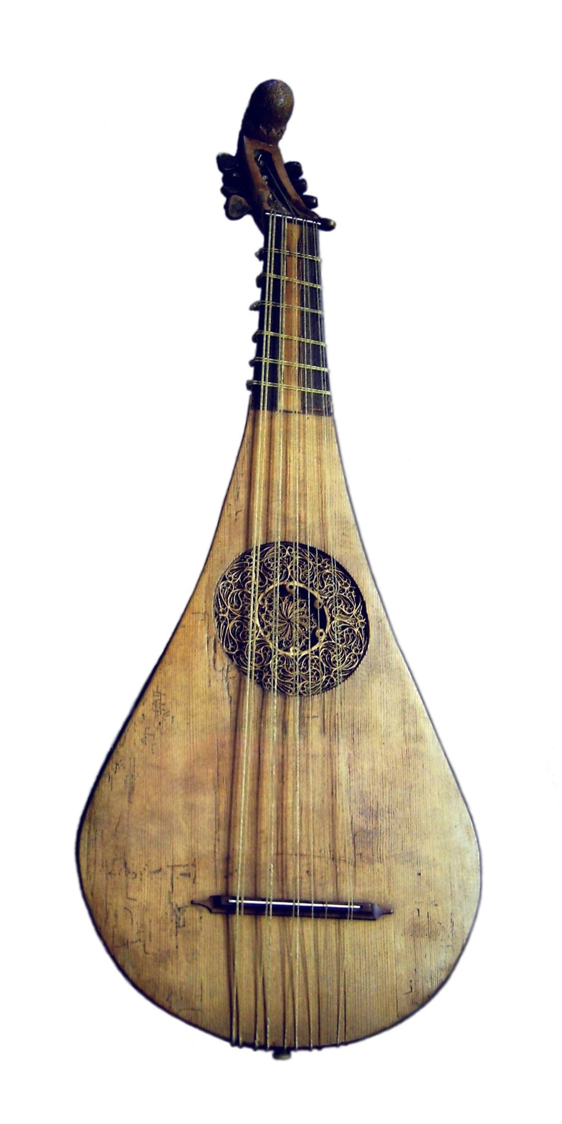 "Quinterne" made in 1450 by Hans Oth in Nürnberg, in the collections at Wartburg Castle.[1][2] Body, neck and pegbox made from one piece of maple, belly spruce or fir. Rose made of several layers of parchment & wood.[3] References ↑ "Gitern - PL 25.4. Gittern from the Wartburg Collection." in Duffin, Ross W , ed. A Performer's Guide to Medieval Music, Indiana University Press, p. 367 Retrieved on 3 December 2010. ISBN: 978-0-253-21533-8. ↑ Nairolf der Minnebolt (2010-10-19). Die "Quinterne". Mittelalter Forum. Retrieved on 2010-12-03. ↑ Lute Society of America. [Lute ID 158]. Retrieved on 2010-12-04.